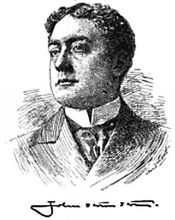 The National cyclopedia of American biography picture